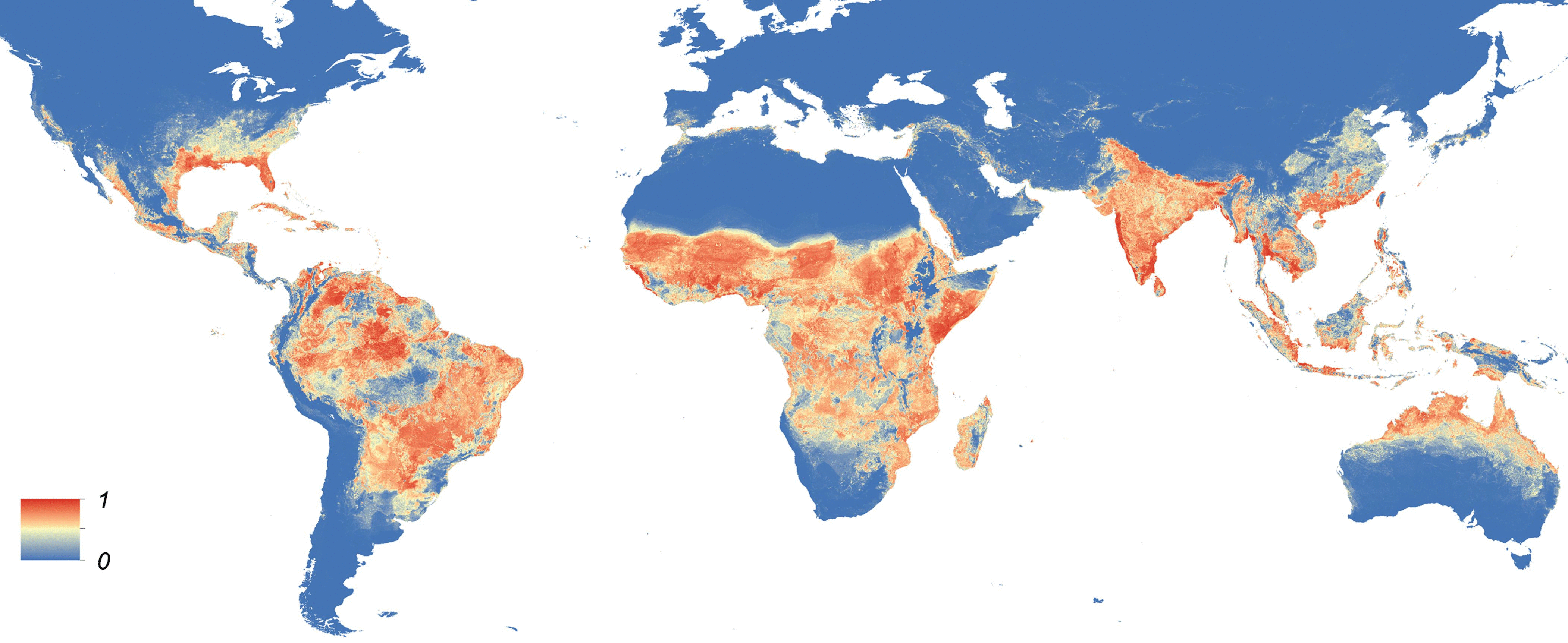 Global map of the predicted distribution of Aedes aegypti in 2015. The map depicts the probability of occurrence (from 0 blue to 1 red) at a spatial resolution of 5 km × 5 km.